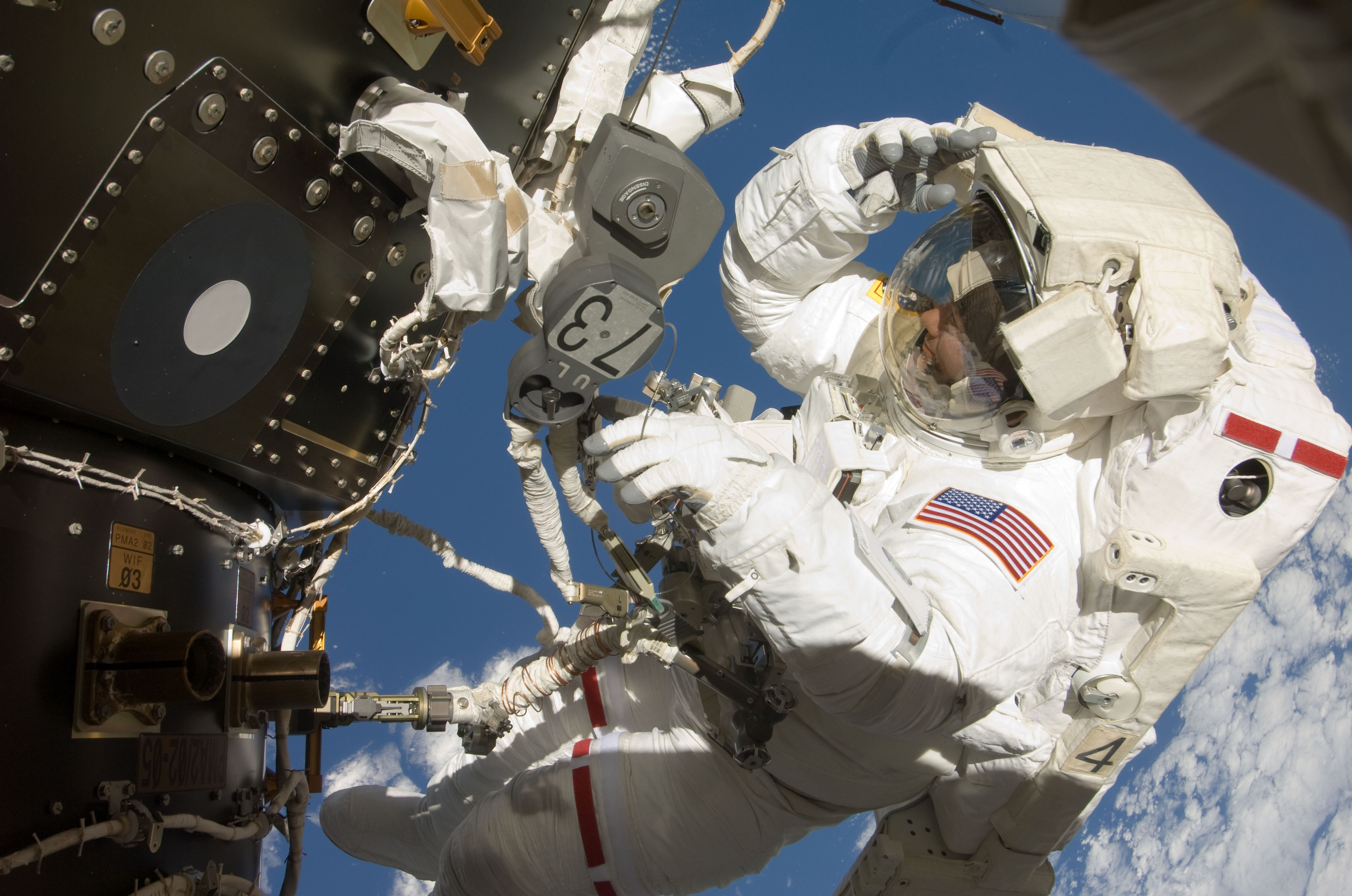 Astronaut Tom Marshburn, STS-127 mission specialist, participates in his first spacewalk and the second overall for the crewmembers of the Space Shuttle Endeavour and the International Space Station. Astronauts Marshburn and Dave Wolf manually moved some hardware around and performed other chores on the spacewalk.